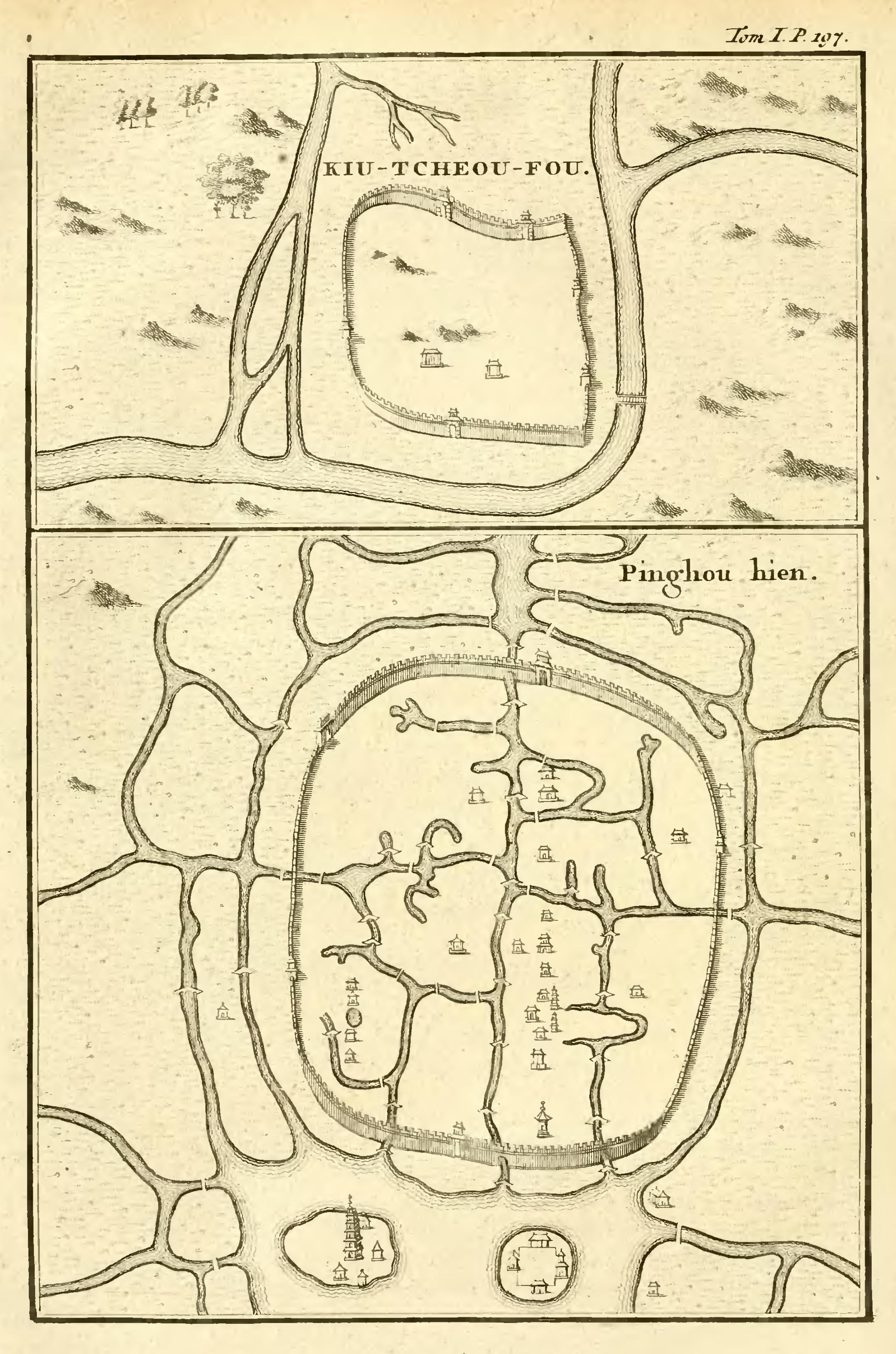 Maps of Quzhoufu (衢州府) and Pinghuxian (平湖縣) in Zhejiang. Engravings from La Haye's edition of the Description of China, Vol. I, p. 197.